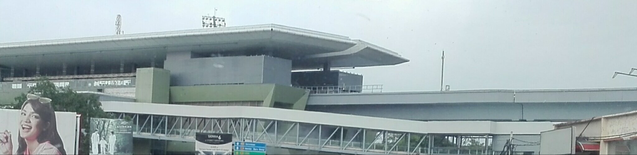 The Stadium Kajang MRT station building. The time this photo was taken, the station has not opened yet and is 2 months away from completion.